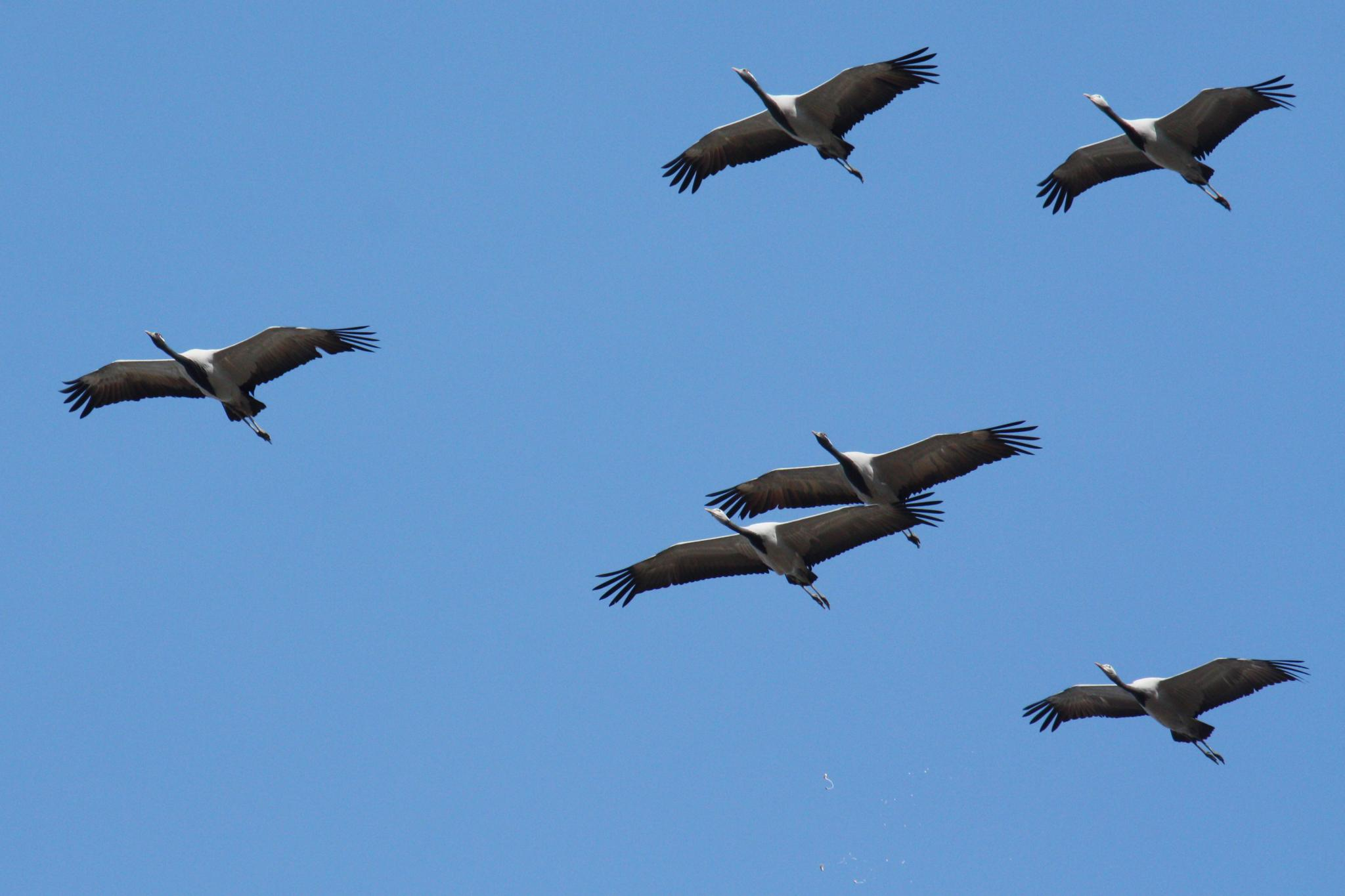 Demoiselle Cranes flying in Mongolia.